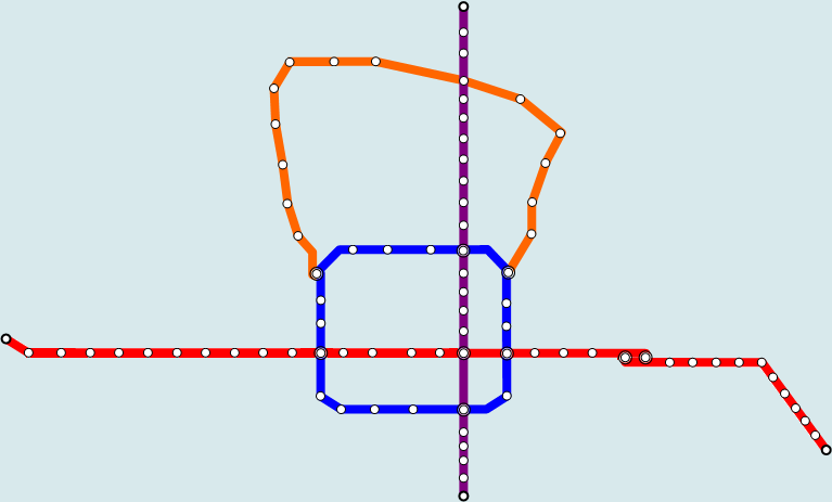 2007年北京地铁系统示意图，包含1号线、2号线、13号线、八通线及新开通的5号线。The illustrate map of Beijing subway system as of year 2007, include line 1, line 2, line 13, line Batong and line 5 which was operated in 2007.本图不按比例This illustrate is NOT scale.